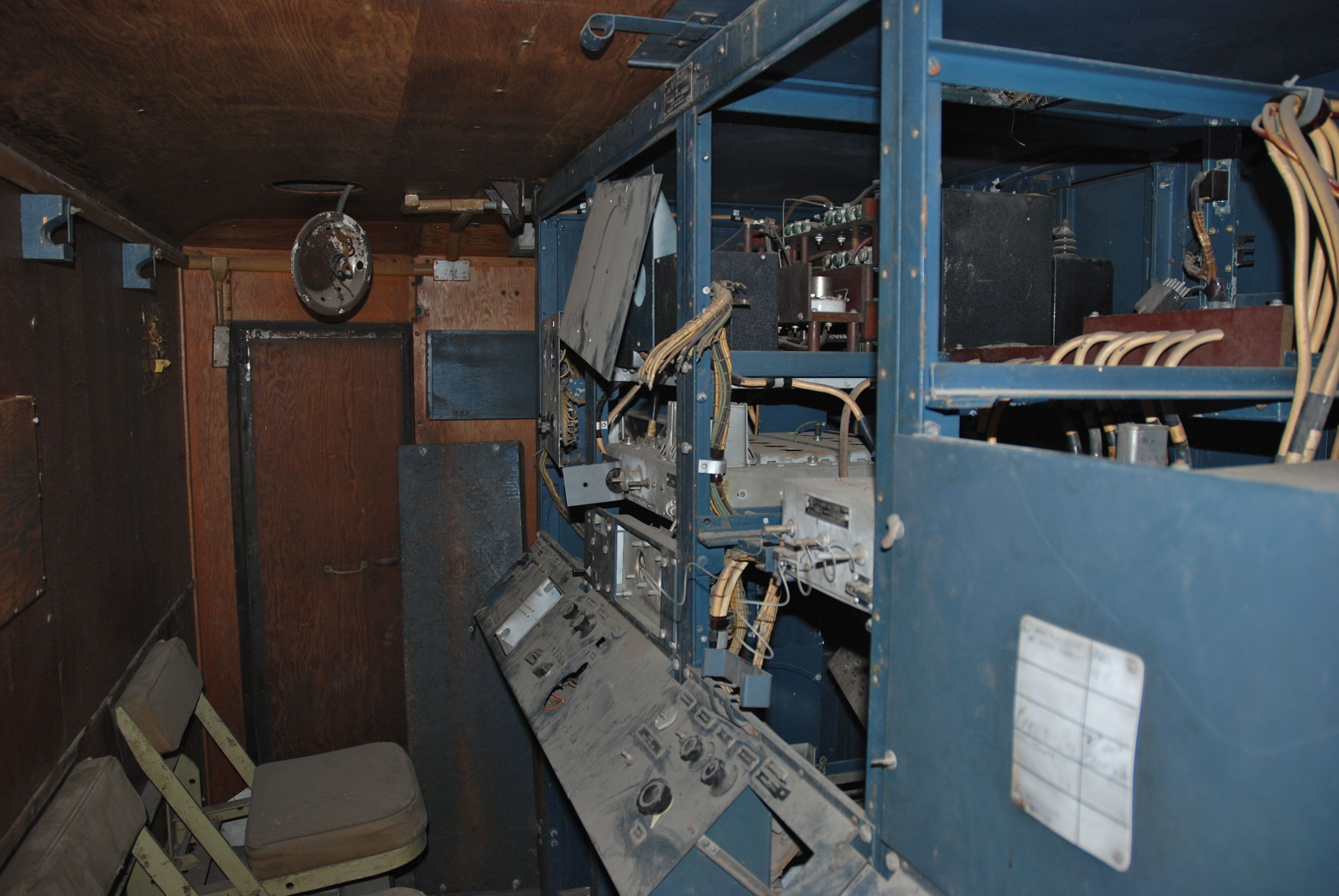 Interior of the only remaining GL Mk. III(c) radar, at the The Royal Canadian Artillery Museum at CFB Shilo, Manitoba. The radar has not begun restoration at the time of posting.